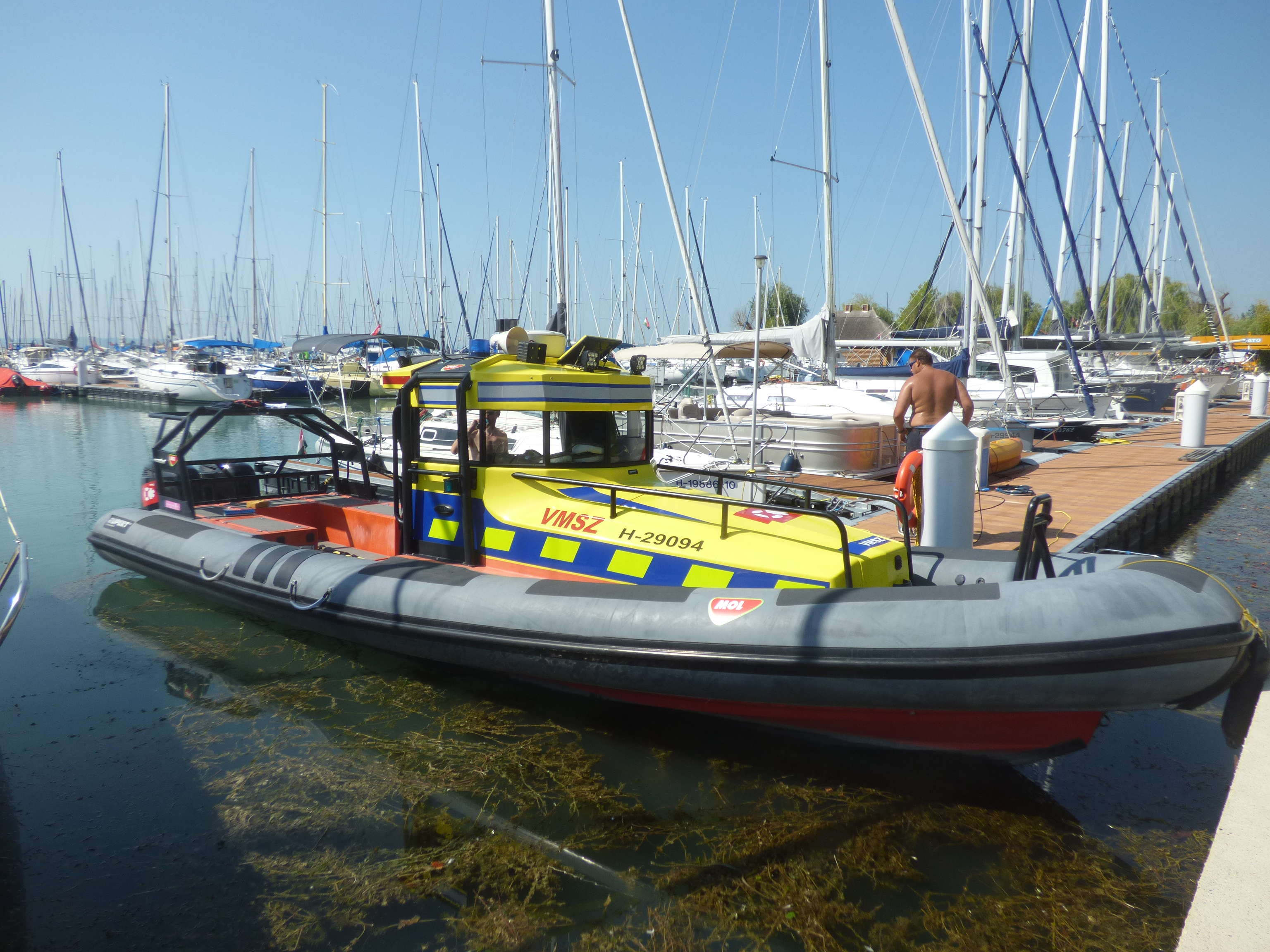 A Vízimentők Magyarországi Szakszolgálatának Rupert sürgősségi mentőhajója Alsóörsön